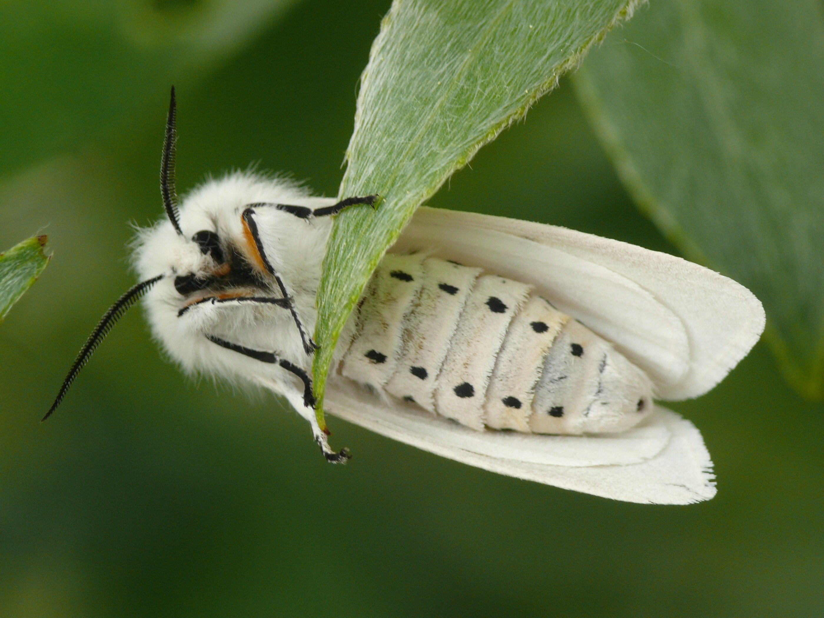 Water Ermine (Spilosoma urticae)